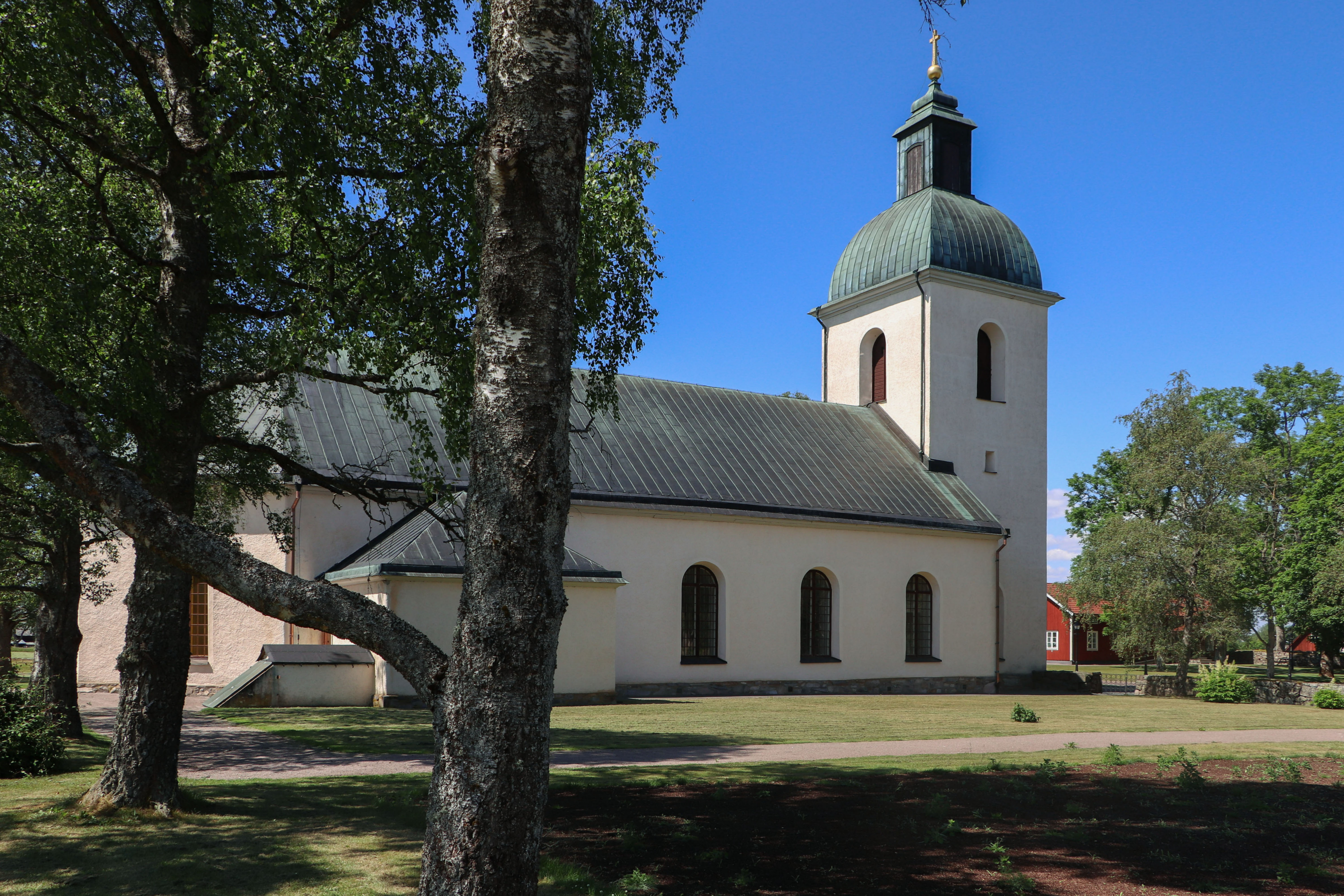 Dädesjö new church.The exterior of the church from the south-east.